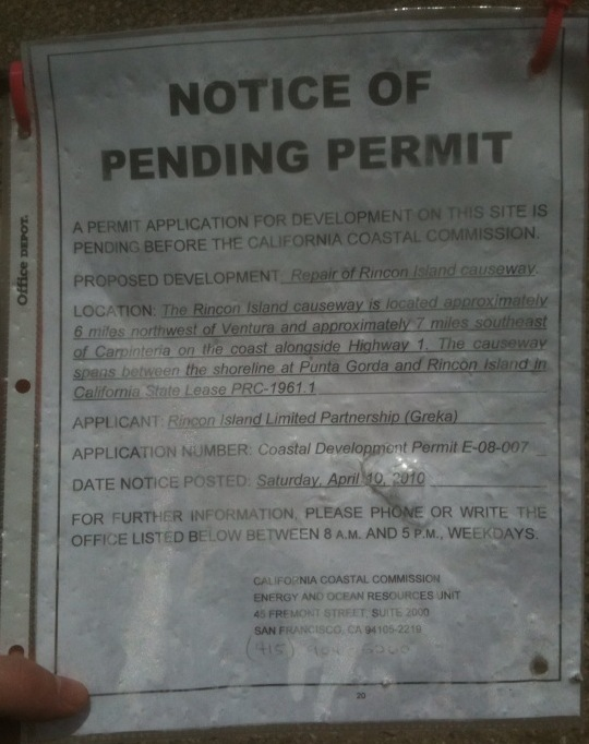 Photo of Planning Permit application at Rincon Island